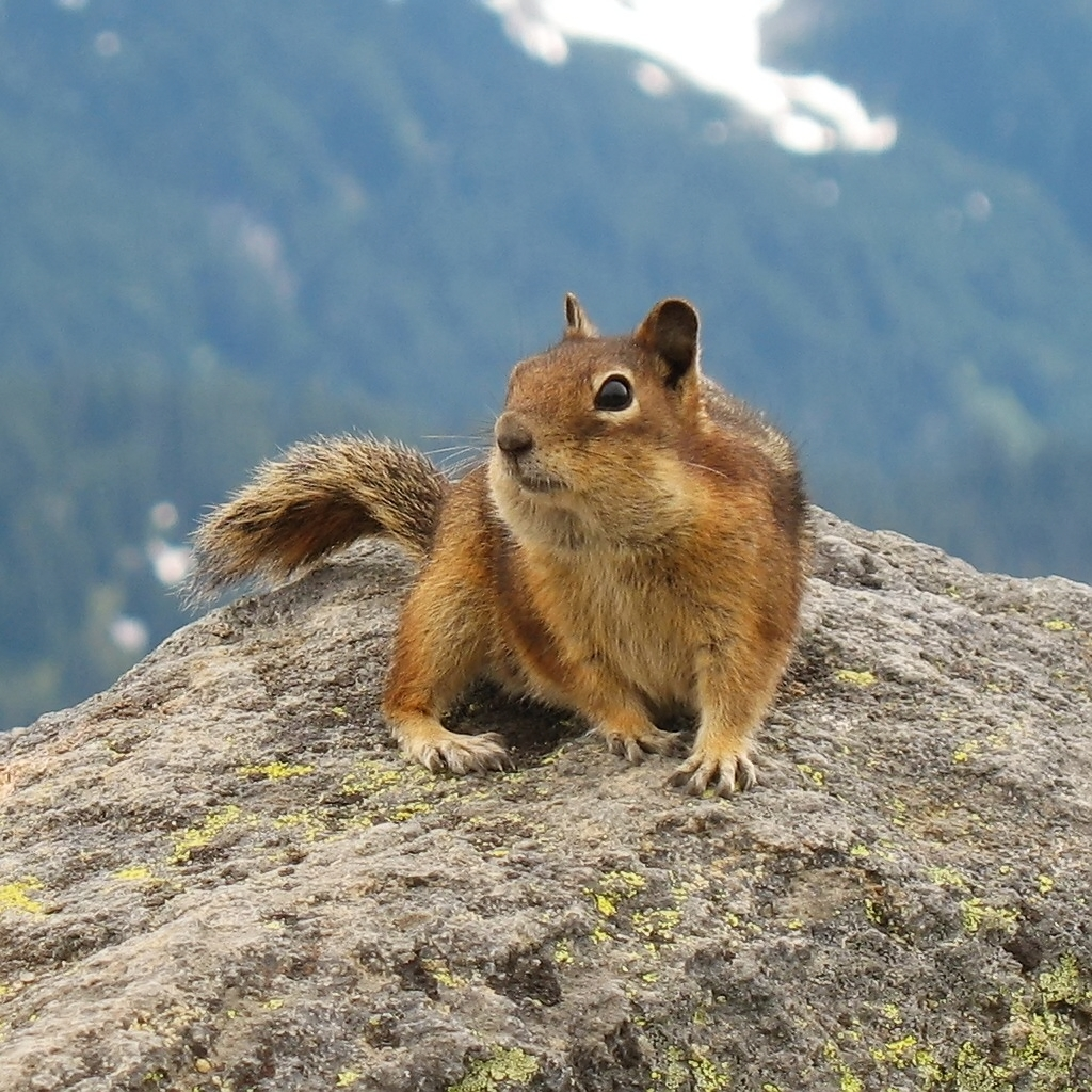 Cascade golden-mantled ground squirrel (Spermophilus saturatus) at Mount Rainier National Park, July 2006. Taken at or near Panorama Point on the Skyline Trail.